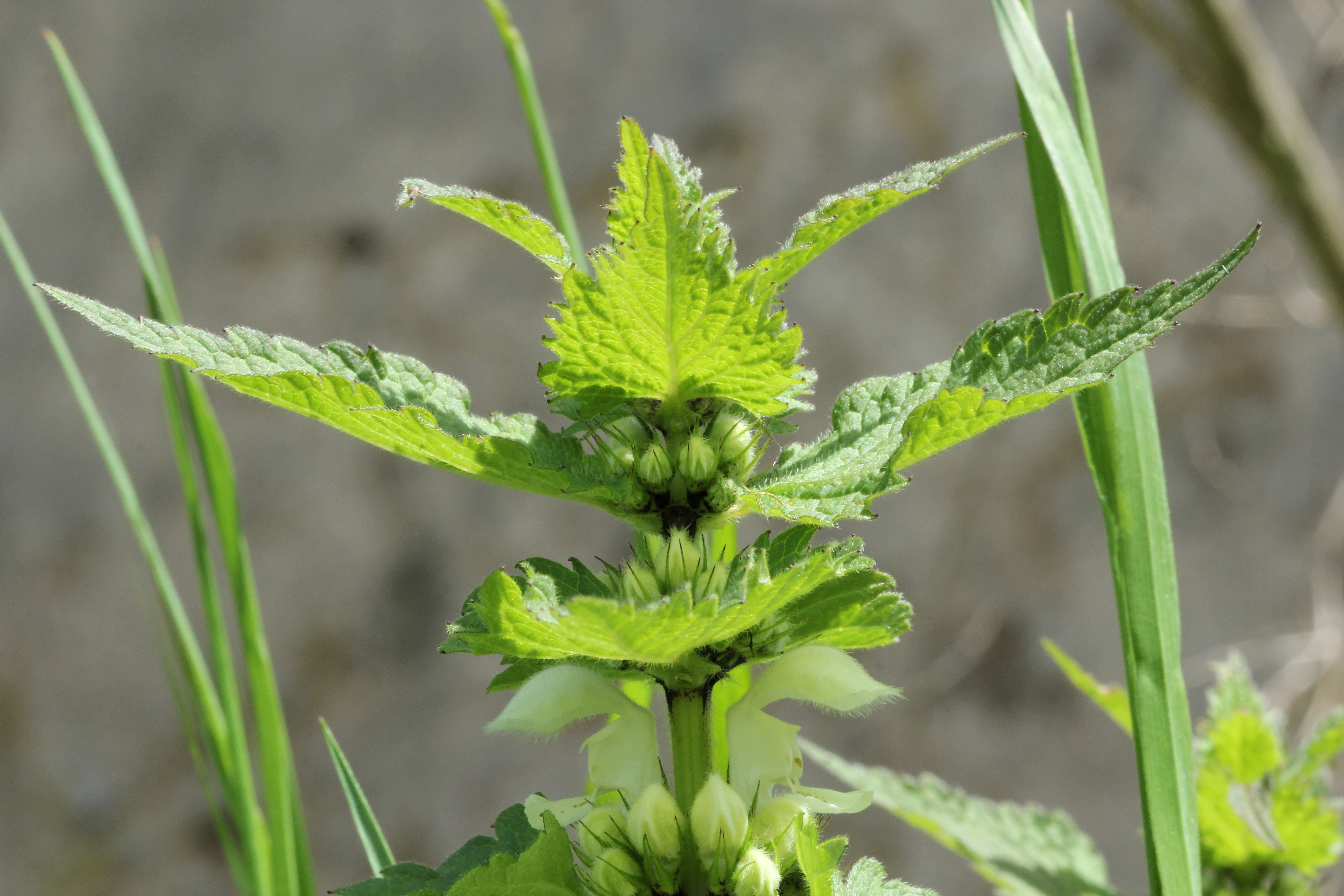 White Deadnettle (Lamium album).